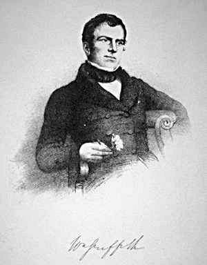 Engraving of William Griffith (1810-1845), British botanist